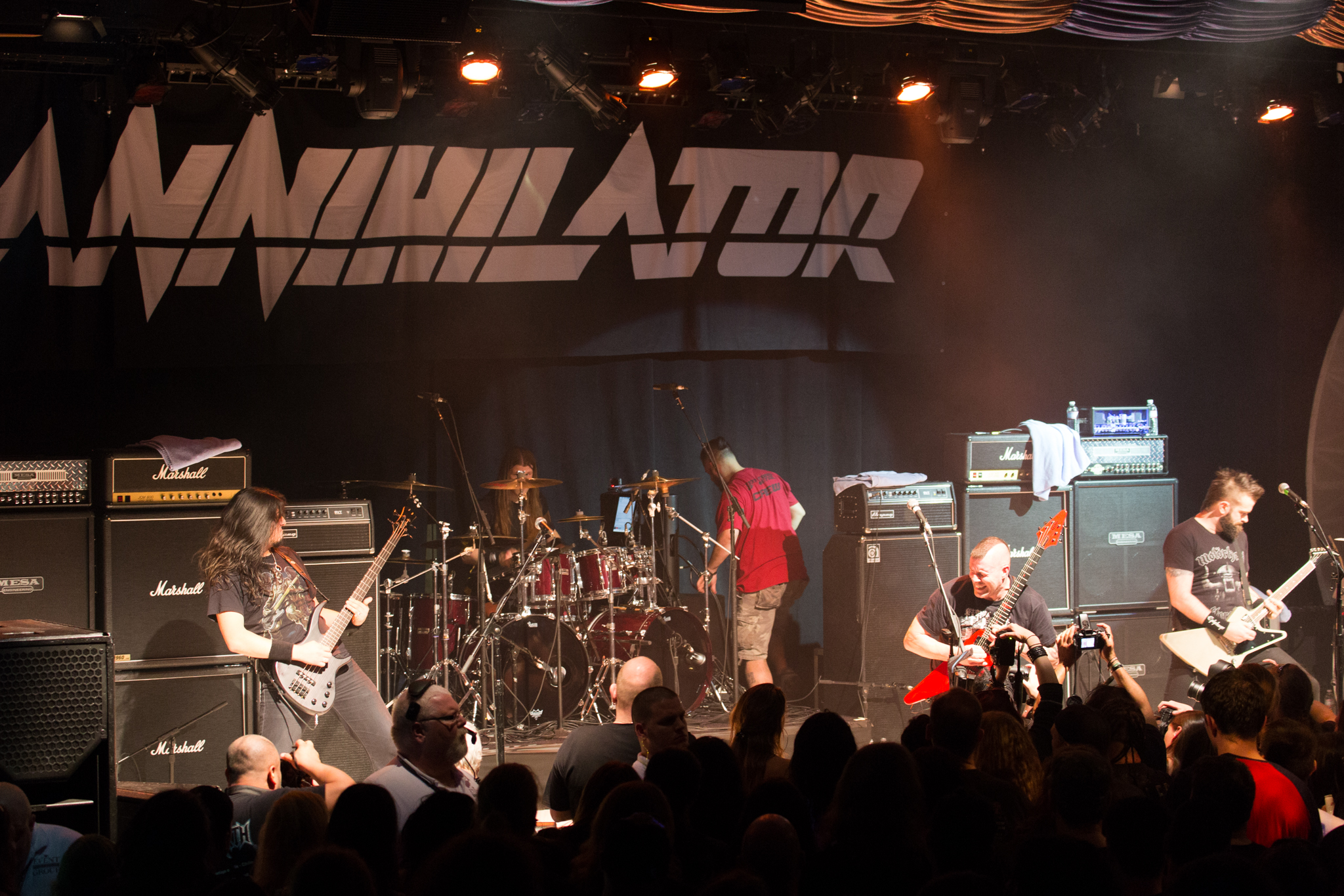 Annihilator performing at 70.000 tons of metal, january 2015